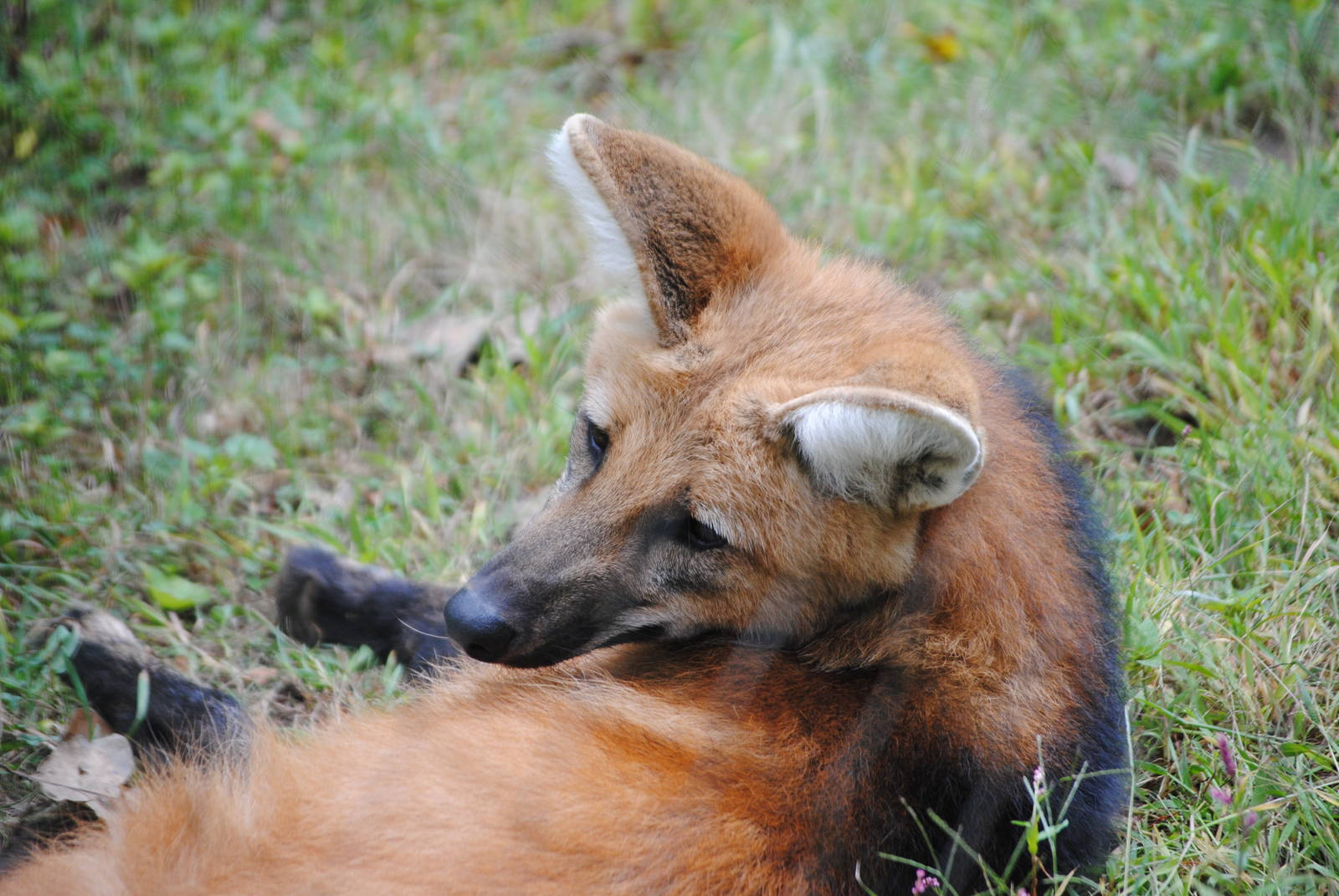 Maned Wolf at Beardsley Zoo